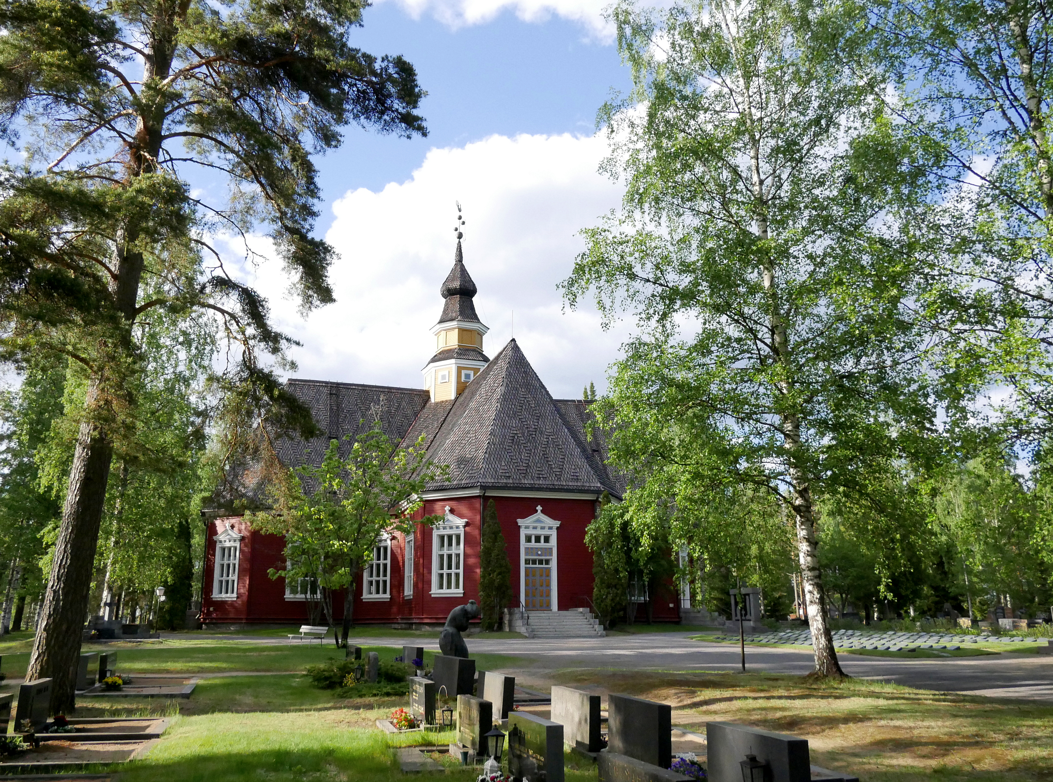 Kuortane Church.